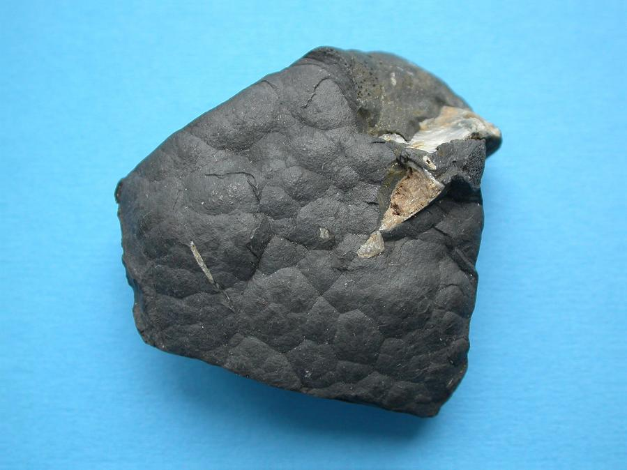 Arsenic Locality: Samson Mine, St Andreasberg, St Andreasberg District, Harz Mts, Lower Saxony, Germany (Locality at ) Old specimen of typical "Scherbenkobalt" from the classic Samson Mine in the Harz Mountains. Specimen size 6x5cm. Specimen and photo Leon Hupperichs.